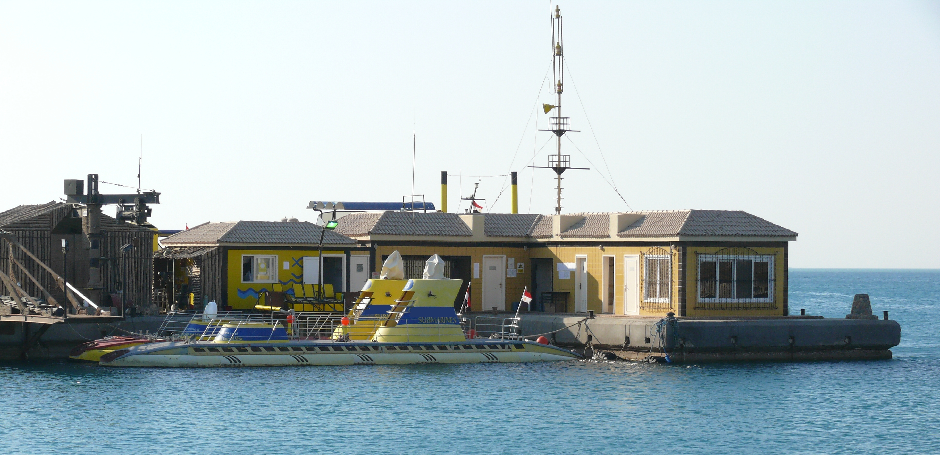 Yellow submarines for tourist outings in the Red Sea, moored at the quai of an Hurghada hotel.